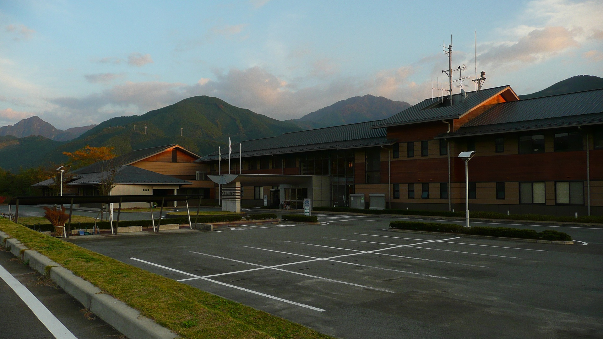 Misato Town Tomochi office (Former Tomochi Town Office - Kumamoto Prefecture, Japan)